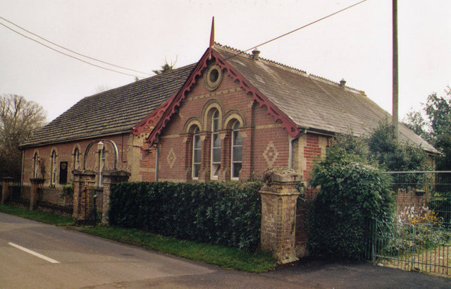 Winsor Church, Winsor Road, near Copythorne, Hampshire. Built in 1881 as a mission church.